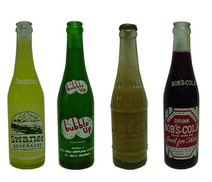 Line-up of Bob's-Cola products. From Left to Right, Swanee, Bubble-Up, JoJo Chocolate, and Bob's-Cola. Line-up of Bob's-Cola products. From Left to Right, Swanee, Bubble-Up, JoJo Chocolate, and Bob's-Cola.